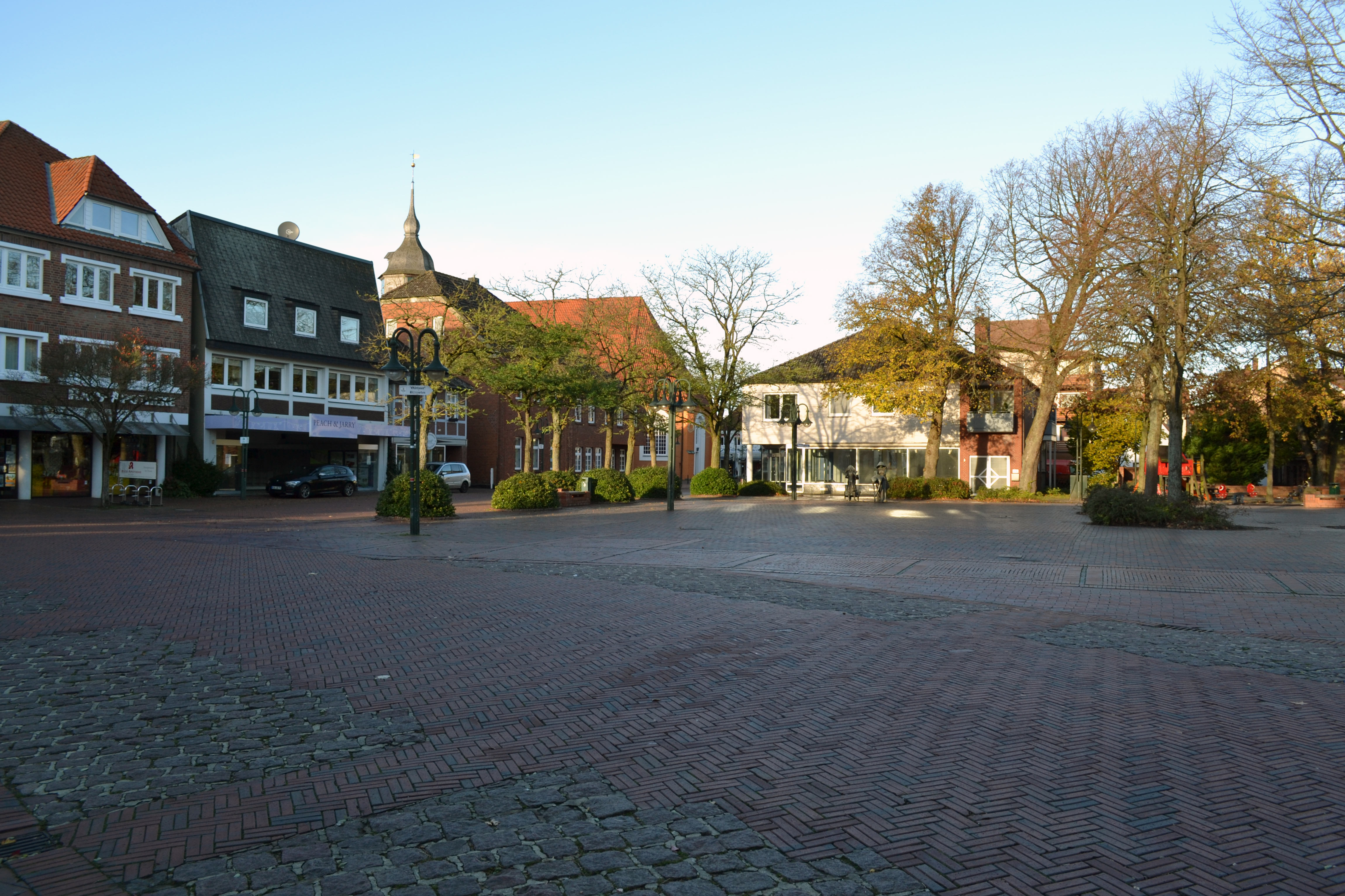 This image shows the marketplace of the city Bremervörde. Adress: Rathausmartk, 27432 Bremervörde-DE